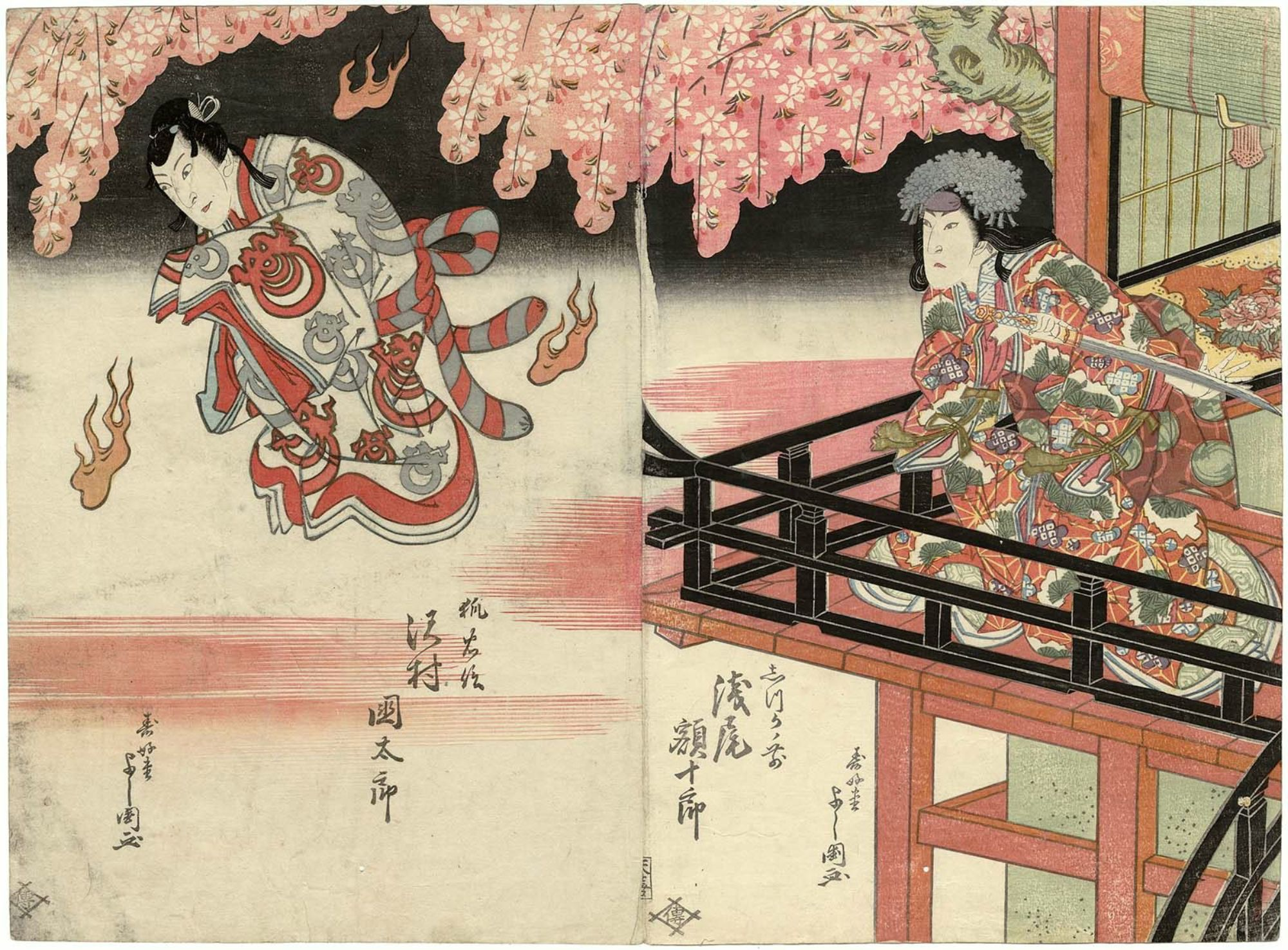 Sawamura Kunitarō II as Kitsune Tadanobu (left), Asao Gakujūrō as Shizuka-no-mae (right), in “Yoshitsune Senbon Zakura”. A ukiyoe print by Jukōdō Yoshikuni